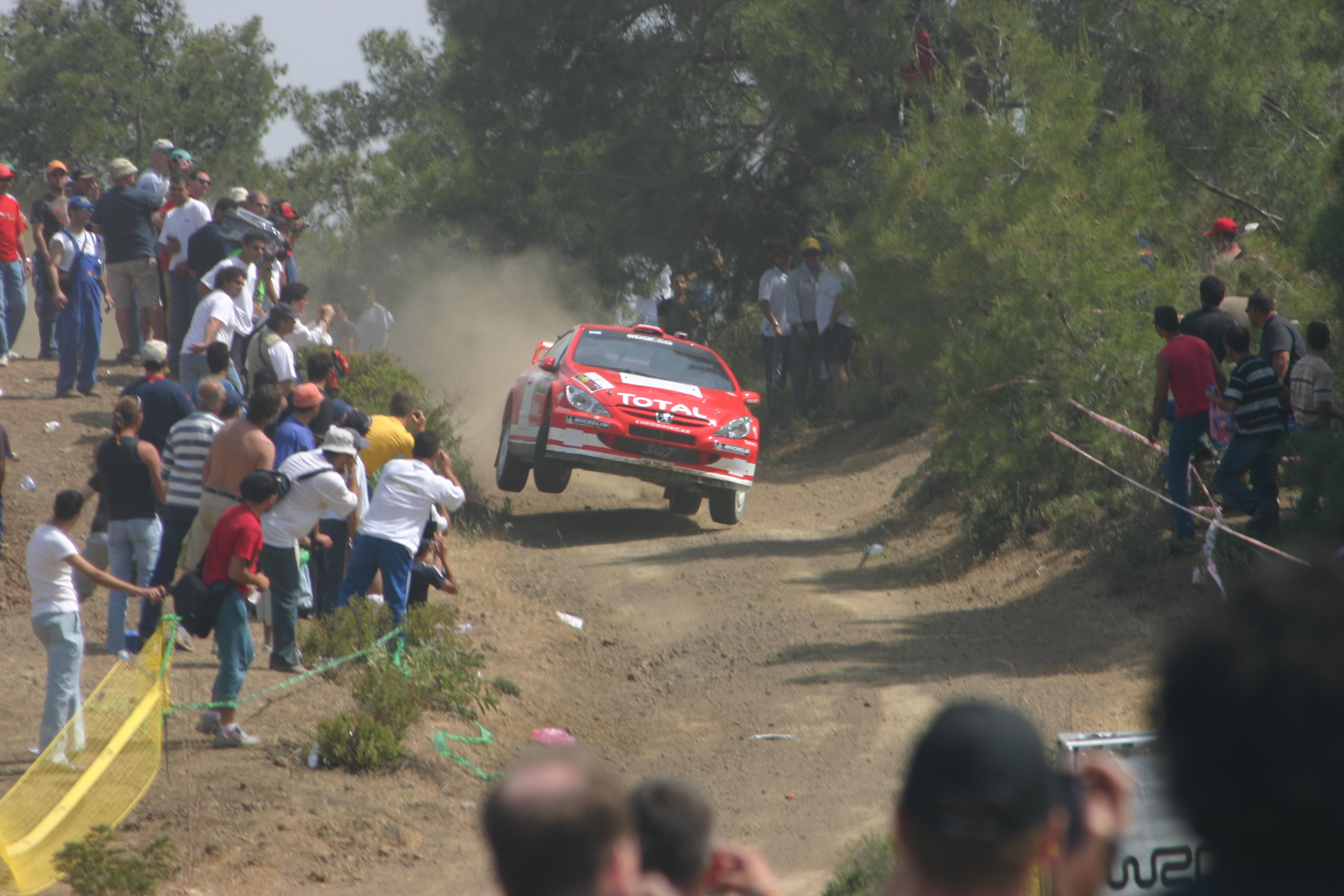 Marcus Grönholm driving his Peugeot 307 WRC during the shakedown of the 2004 Cyprus Rally.